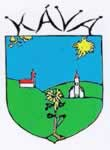 Coat of arms of Csömör, Hungary